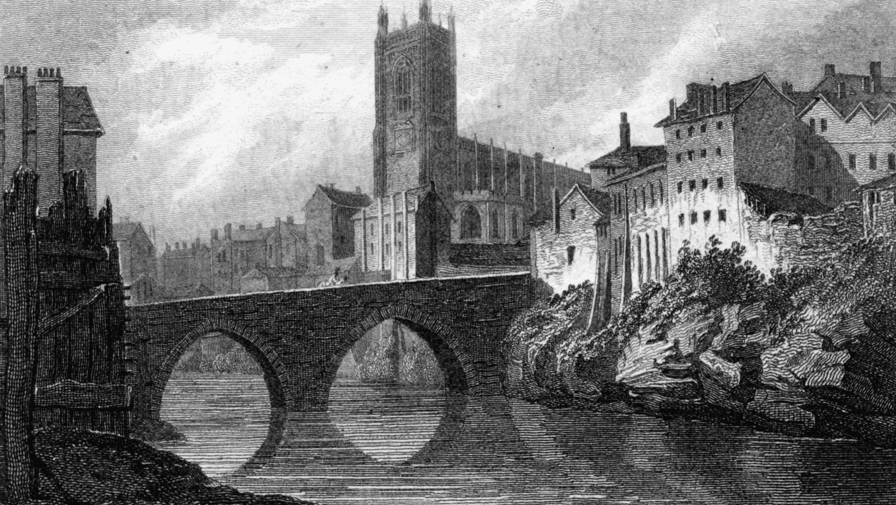 Salford Old Bridge, in Manchester. Manchester Cathedral visible in the background.